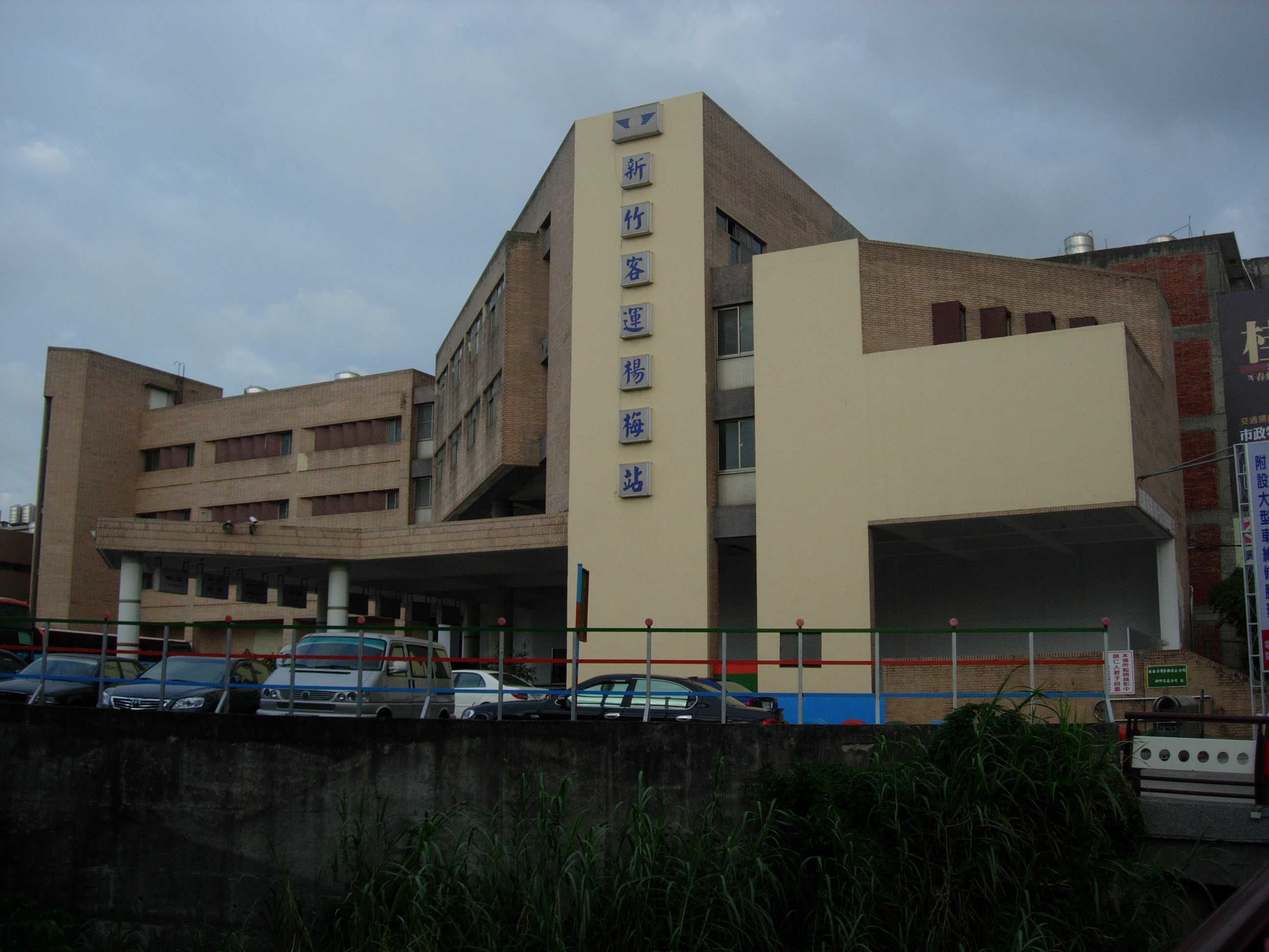 Hsinchu Bus Yangmei Station.中文（台灣）: 新竹客運楊梅站。